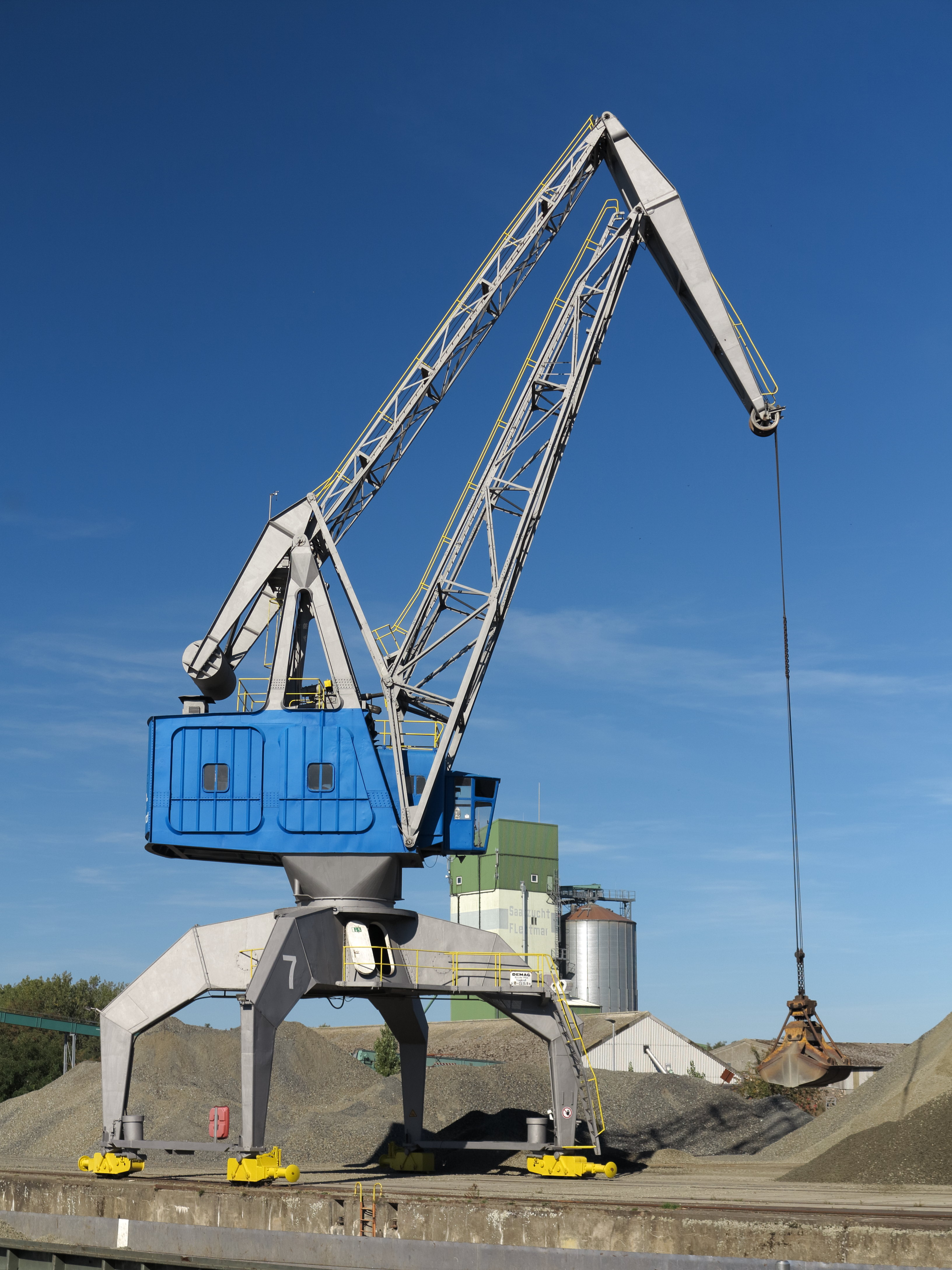 A level-luffing port crane, built in 1956 by demag, in Brunswick, Germany port